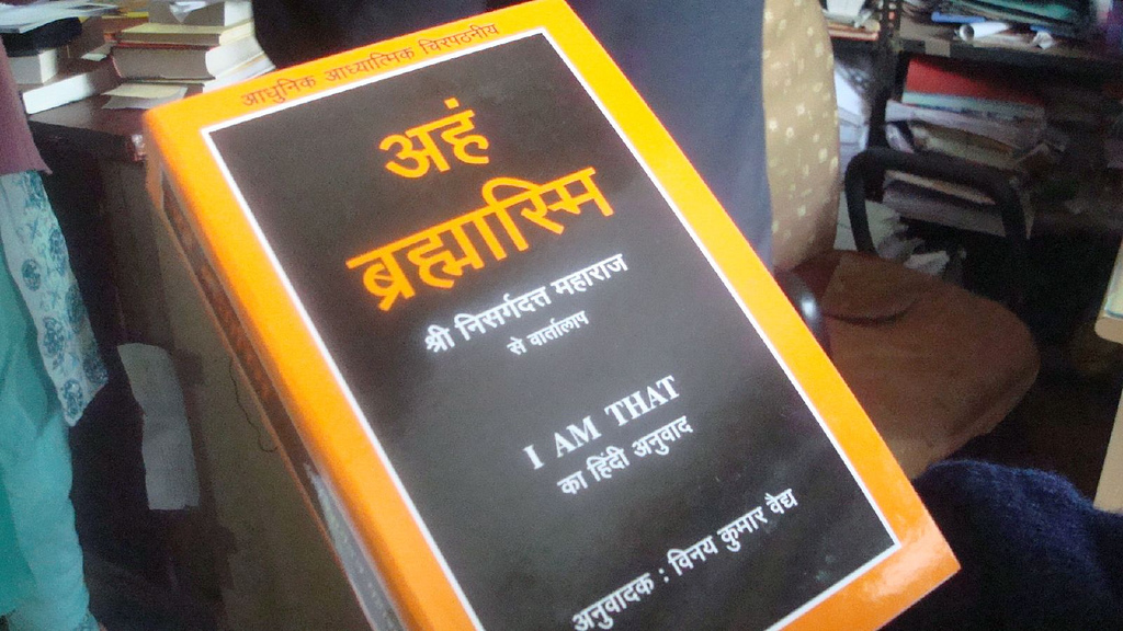 picture of a copy of Nisargadatta's "I Am That" in Hindi